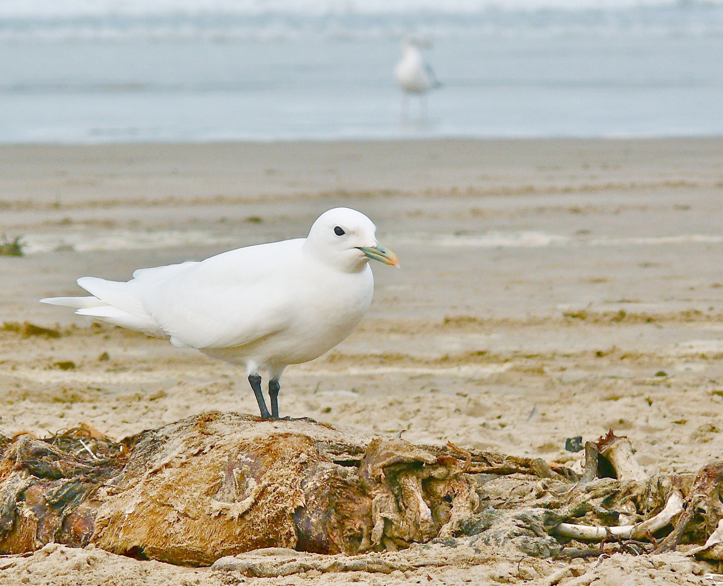 Sitting atop a seal carcass is an Ivory Gull, rarely seen on the Central Coast of California.